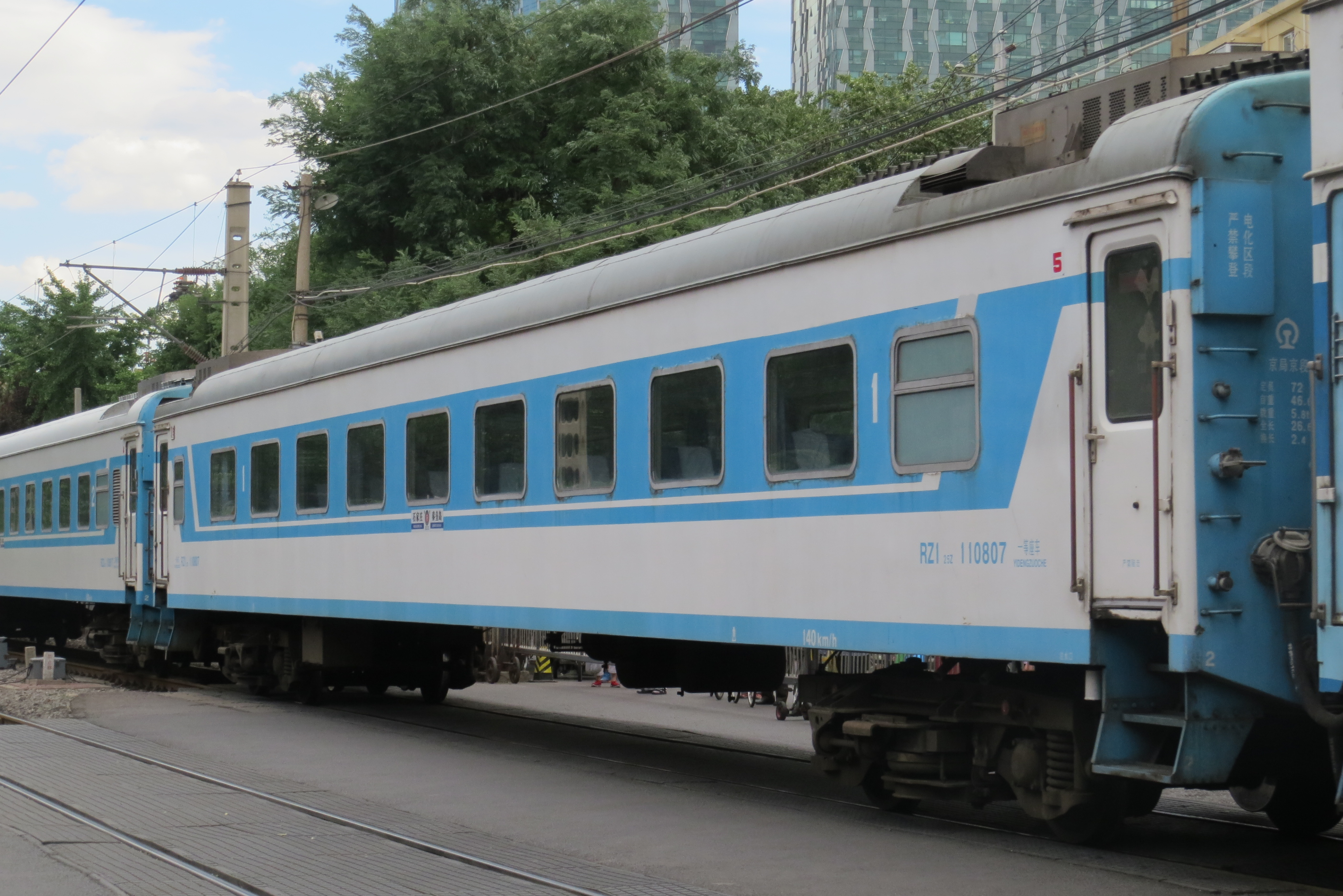 T5684 to Shijiazhuang. Sky blue scheme with a blue sky.